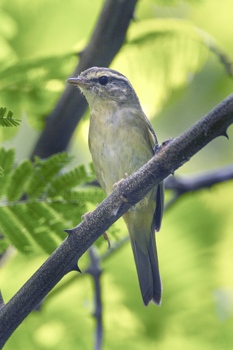 Radde's Warbler - Thailand_S4E1407